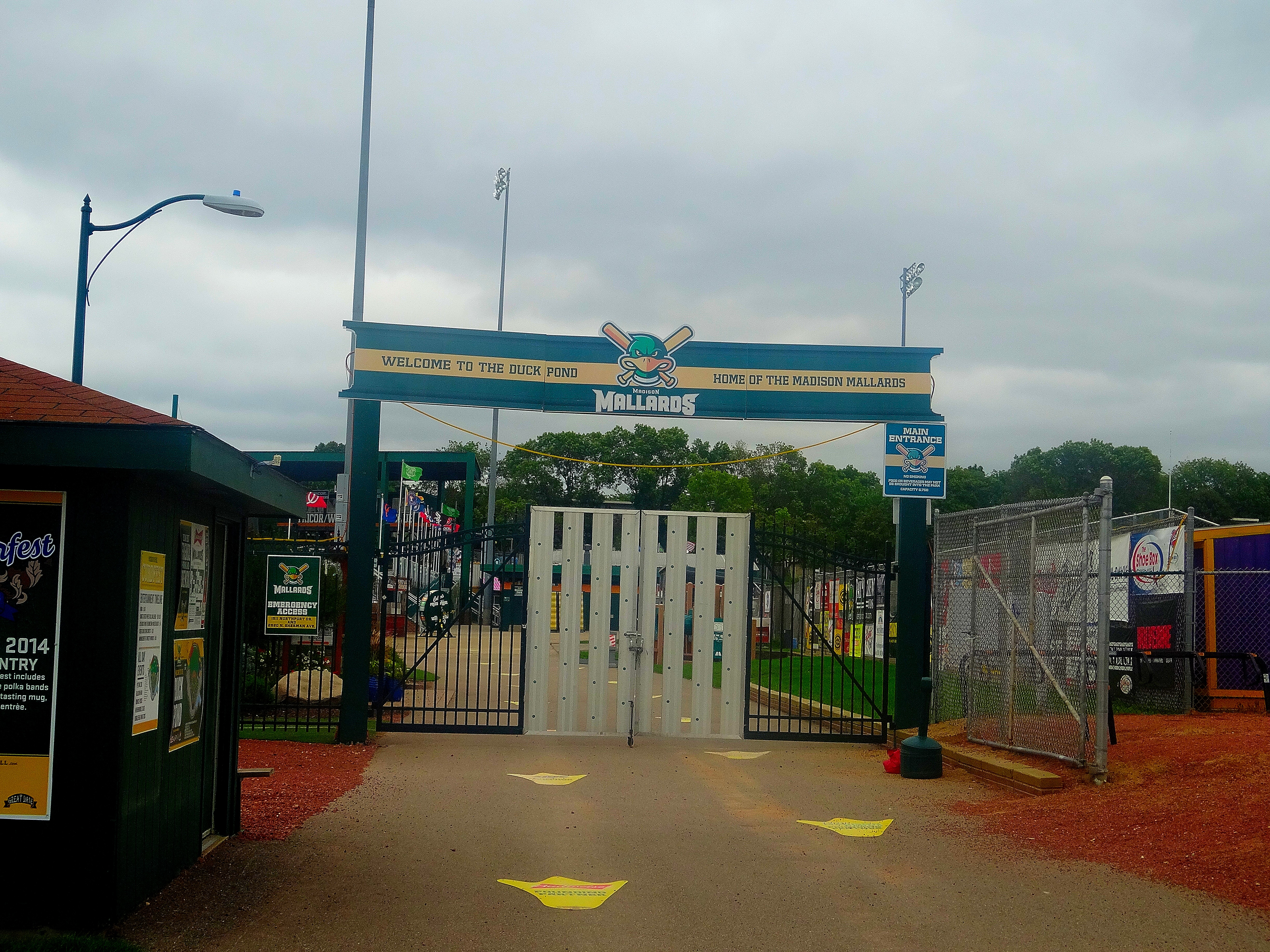 Warner Park Duck Pond Entrance